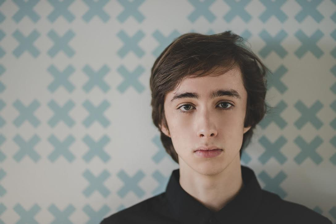 Jakub Čech, Czech student and activist